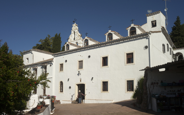 Ref: PM_101247_E_Cordoba.jpg; Córdoba; Las Ermitas; Andalucía, Córdoba; Spain; Cultural heritage; photo: Paul M.R.Maeyaert; © Paul M.R. Maeyaert